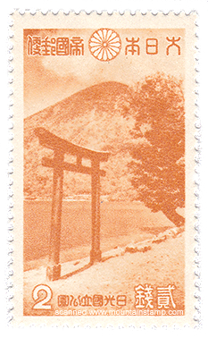 Japanese stamp: Chūzenji lake and mount Nantai in Nikkō.